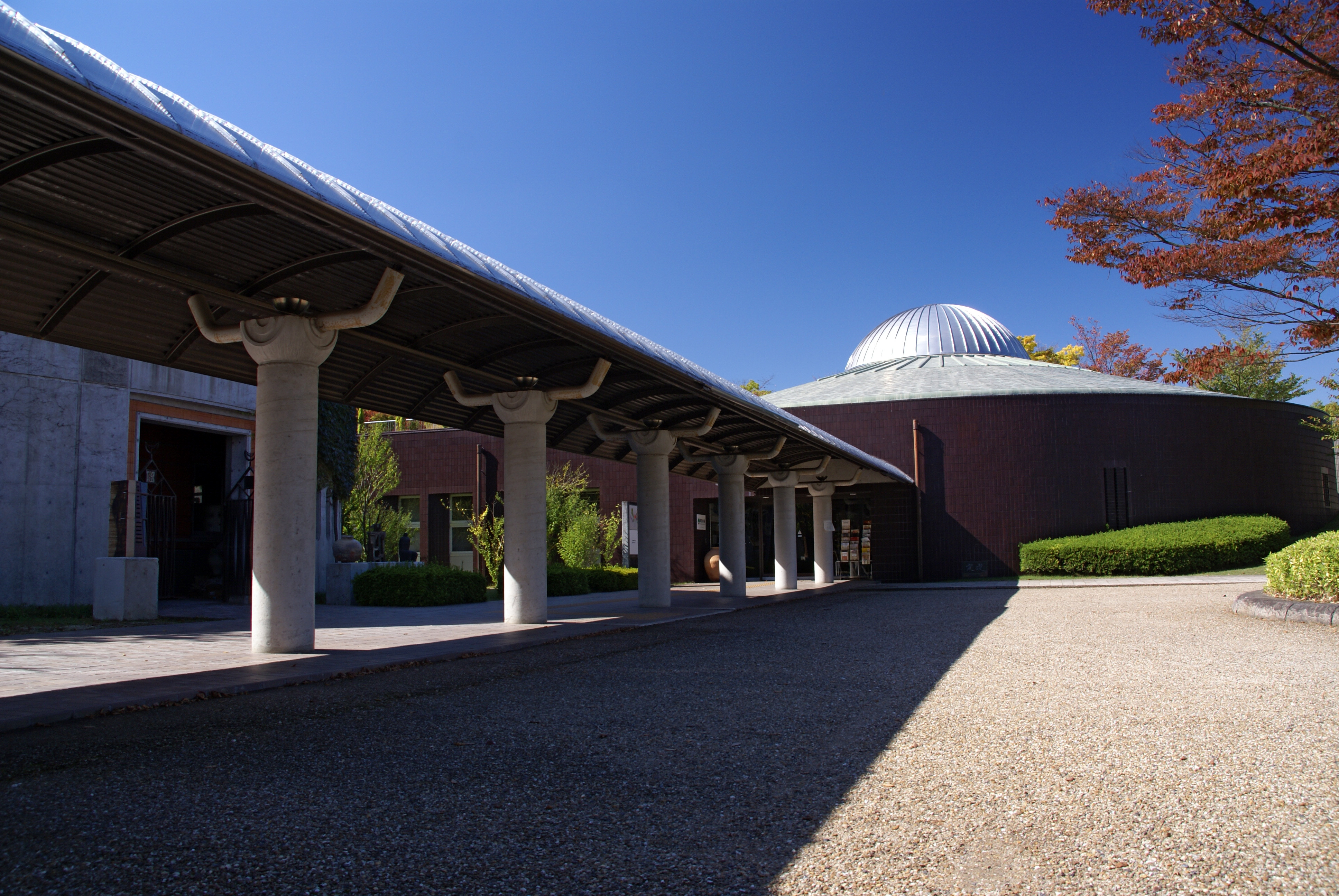 Shigaraki Ceramic Cultural Park in Koka, Shiga prefecture, Japan